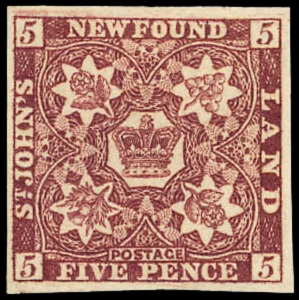 Postage stamp of Newfoundland (now Canada), 5 pence, 1860, scott#12A